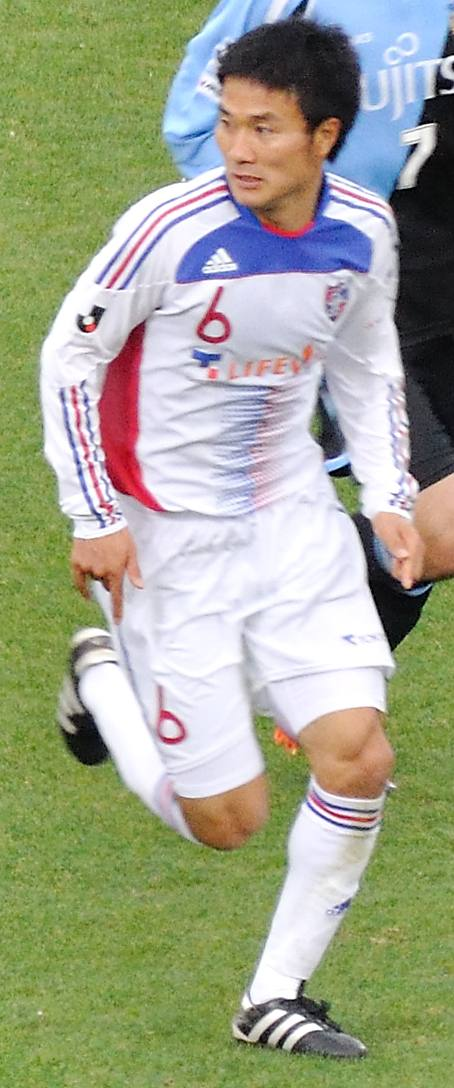 Yasuyuki Konno cropped from, Kawasaki Frontale vs FC Tokyo